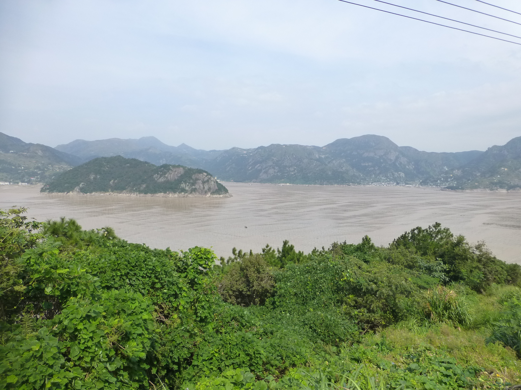 On the coast of Dayu Bay in or near Longsha Village (formerly, township: 龙沙乡), in Chixi Town, Cangnan County, Zhejiang, China.